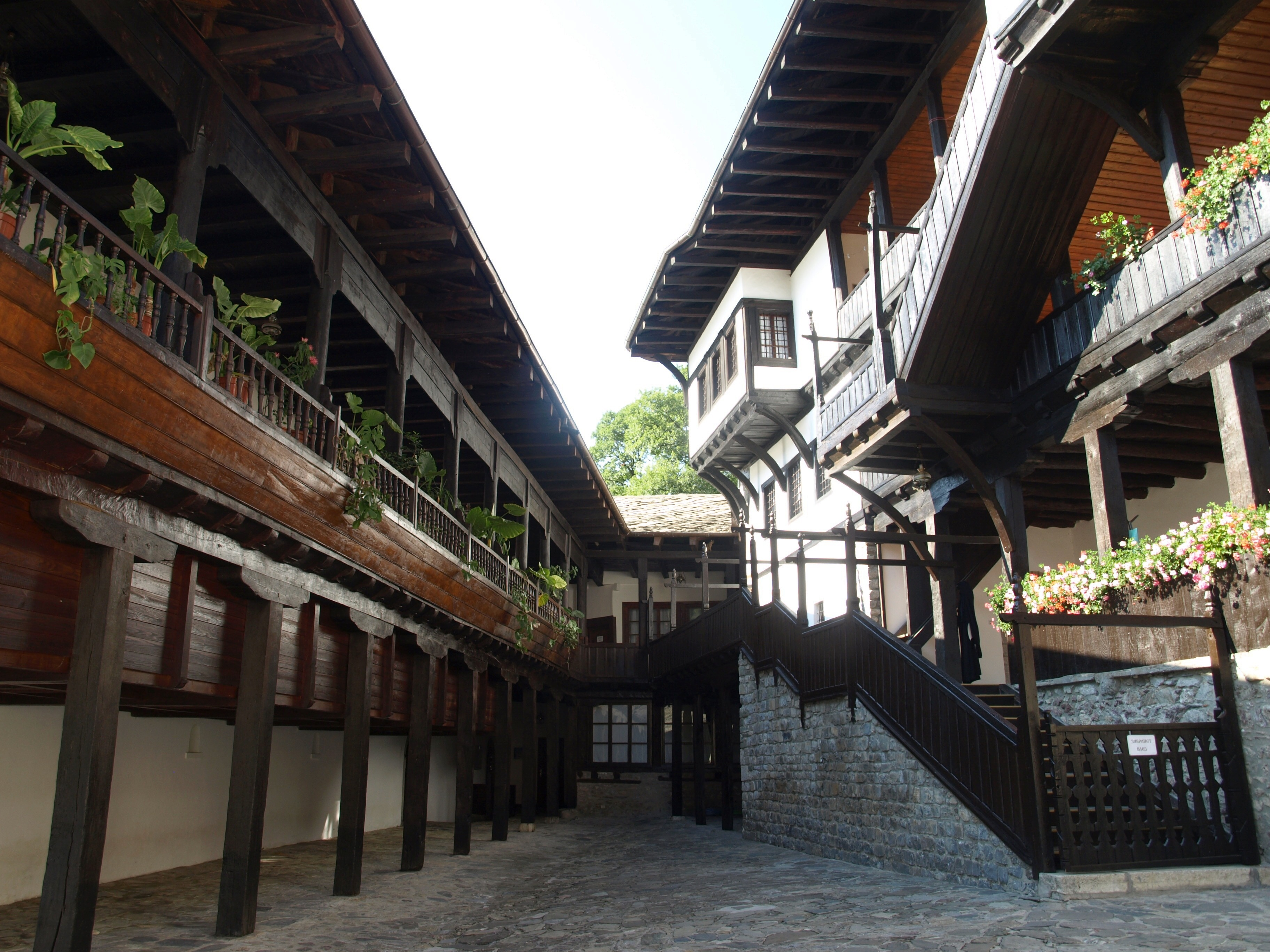 Monastery Sveti Jovan Bigorski in Macedonia, mansions